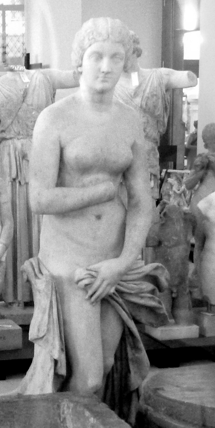 Statue of Venus emerging from her bath; the face depicts Annia Lucilla. Now in Dresden's Staatliche Skulpturensammlung. 166-169 CE.